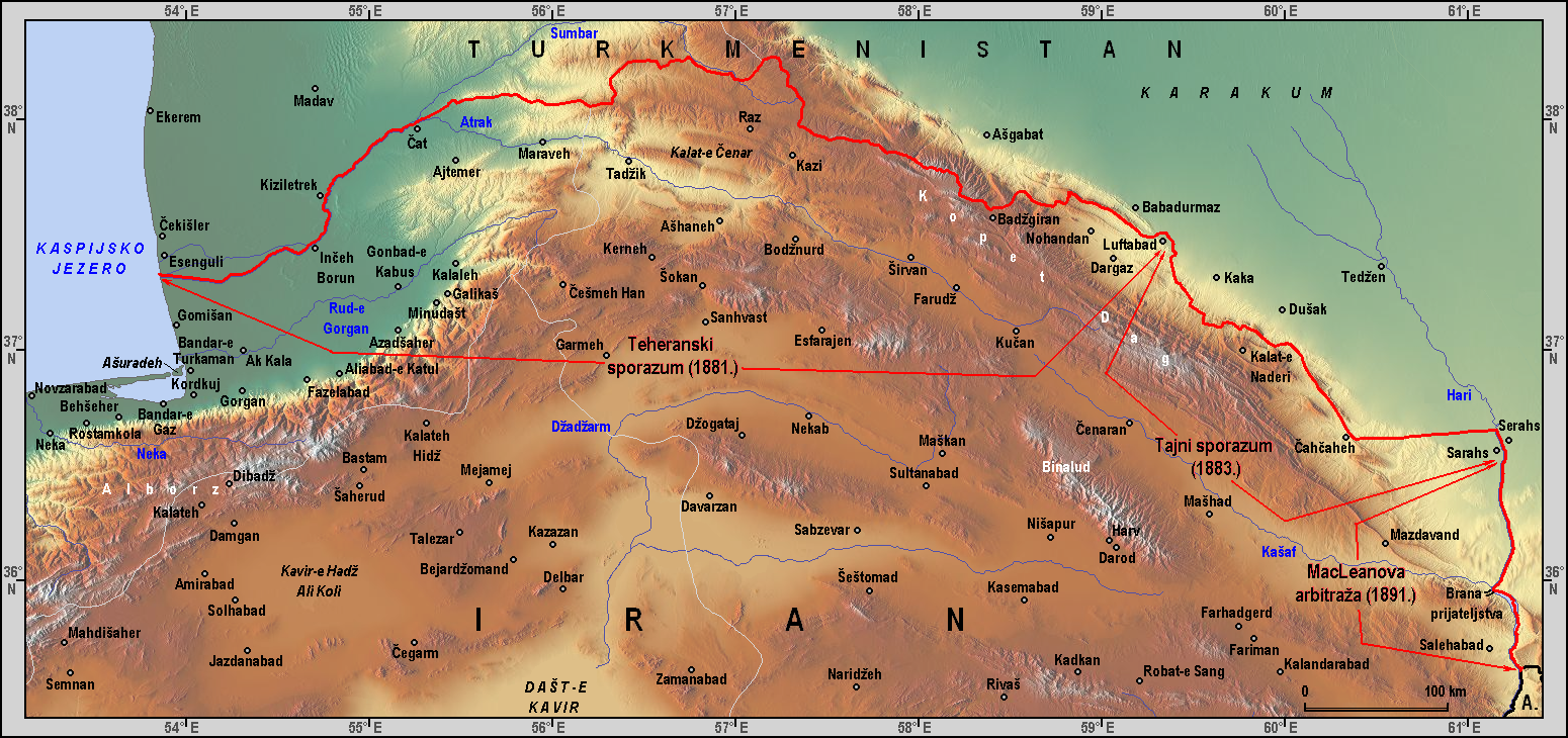 Iran-Turkmen border with Croatian descriptionHrvatski: Iransko-turkmenistanska granica